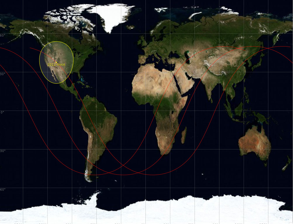 Ground track of satellite Telkom3 which failed to launch correctly - it was intended to be in geosynchronous orbit. Made from US government TLE data by GPLed program gpredict which plots the ground track over an public domain map of the world which originates from NASA. TLE from October 2012.